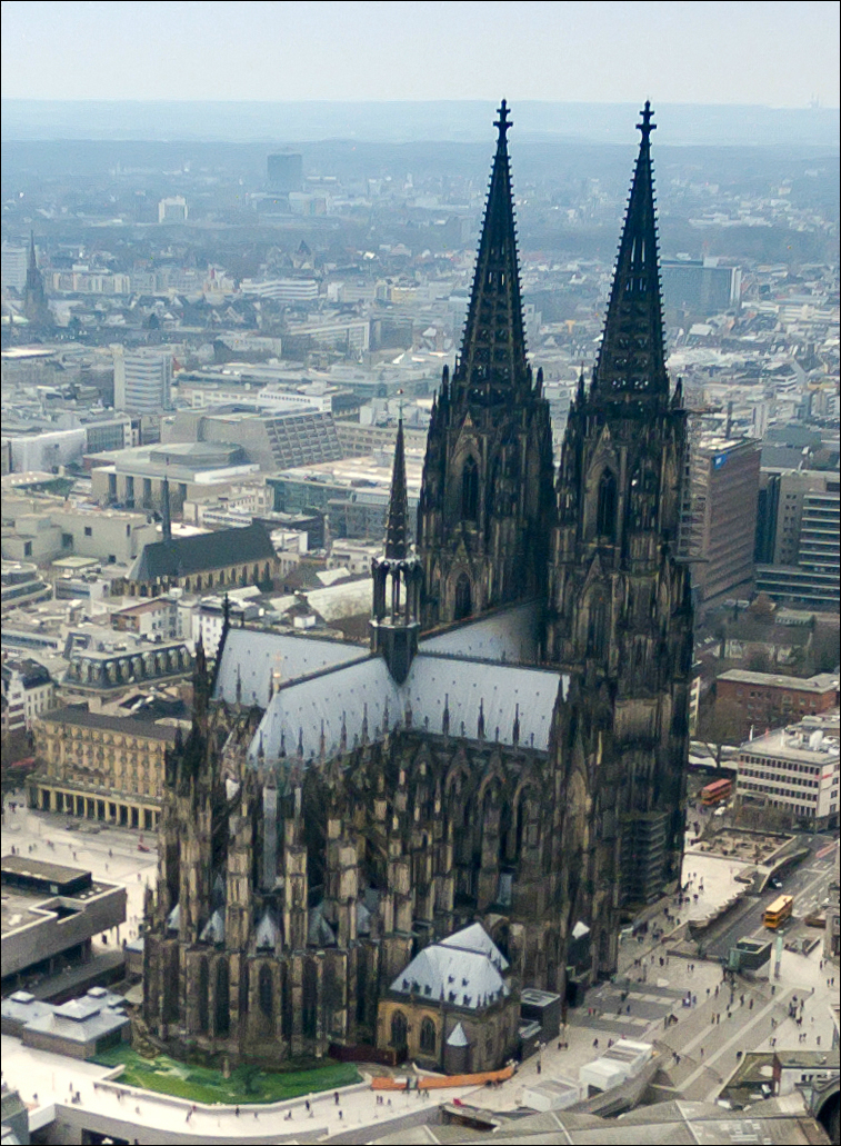 Cologne Cathedral, Rayonnant Gothic style, Cologne, Germany.